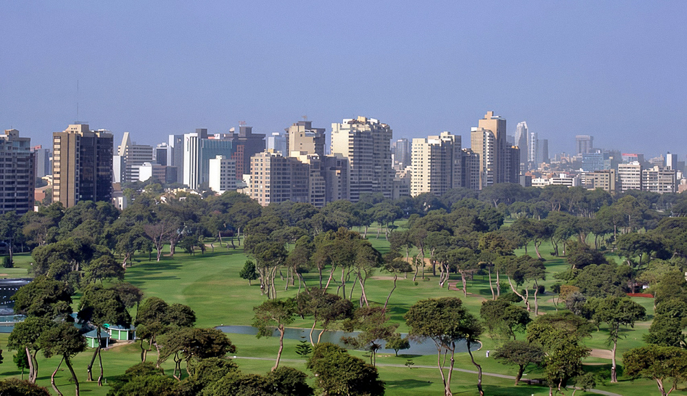 Lima Golf Club (San Isidro District)